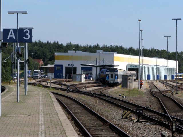 Depot of german railway-company Eisenbahnwerkstatt-Gesellschaft in Husum